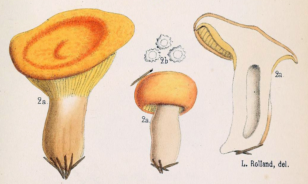 Drawings of the agaric fungus Lactarius porninis Rolland. From: Rolland LL. (1889). "Excursion a Zermatt (Suisse). Cinq champignons nouveaux". Bulletin de la Société mycologique de France 5 (3): 168.